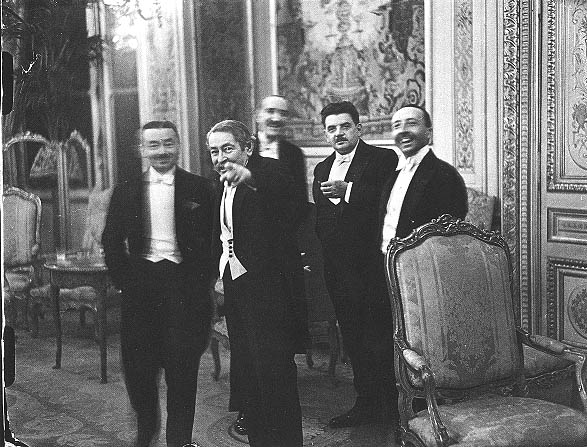 Left to right: Paul Reynaud, Aristide Briand ("Ah, le voila: le roi des indiscretes!"), Champetier de Ribes,Edouard Herriot, Léon Bérard